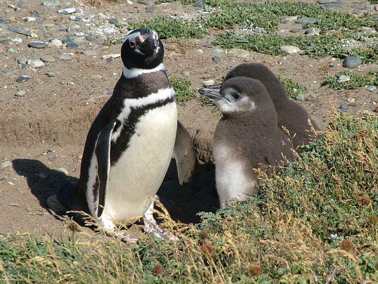 Magellanic Penguin (Spheniscus magellanicus) -adult and 2 chicks in the wild in Chile. Eccoli, finalmente! A Punta Arenas c'e' una colonia di pinguini, circa seimila coppie. Arrivano a settembre, si accoppiano, tirano su i piccoli e ripartono ad Aprile. In questo periodo i piccoli stanno per cambiare pelle ed entrare nella loro 'adolescenza'.